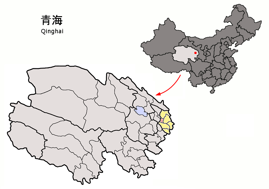 Location of Ping'an County (pink) and Haidong Prefecture (yellow) within Qinghai province of China Map drawn in september 2007 using various sources, mainly : Qinghai province administrative regions GIS data: 1:1M, County level, 1990 Qinghai Counties map from "Plateau Perspectives" (the limits of some county-level subdivisions may not be accurate)